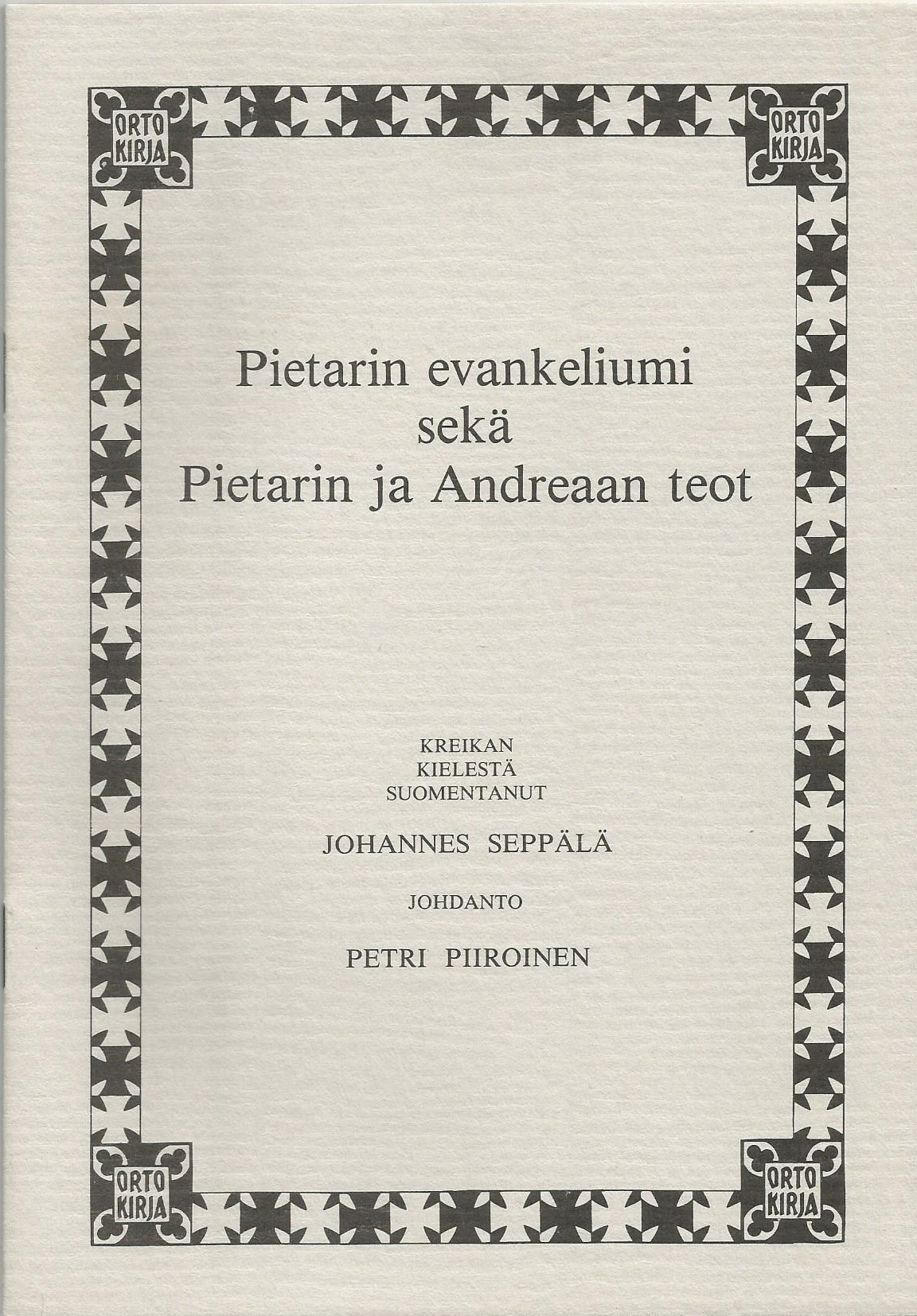 Finnish cover of Gospel of Peter and Acts of Peter and Andrew